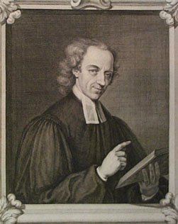 Portrait of William Whiston (1667-1752), British mathematician